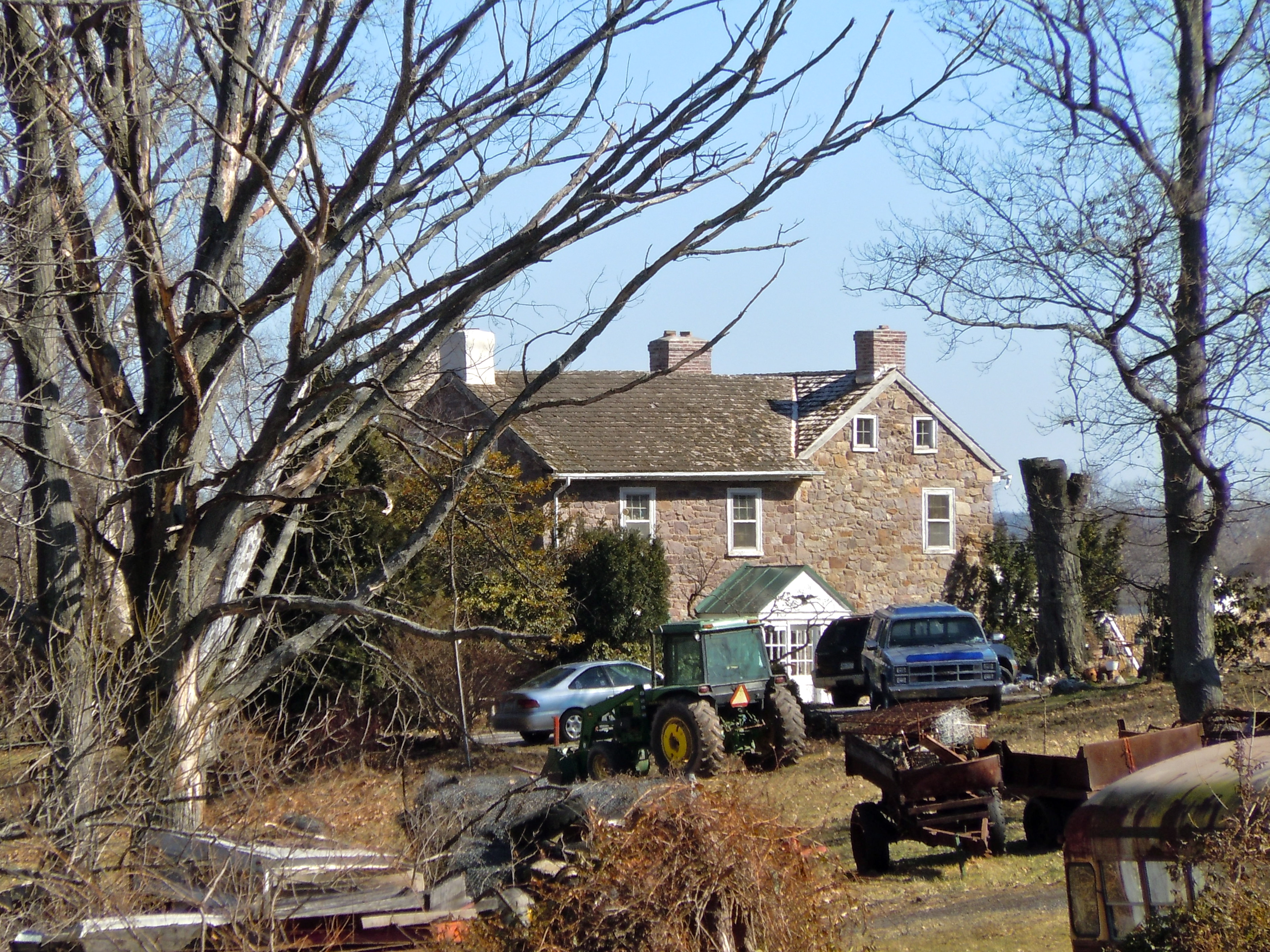 French Creek Farm on the NRHP since November 3, 1988. On Kimberton Road near Kimberton, in West Vincent Township, Chester County, Pennsylvania. This shot is from the side from Ford Road, and shows the back of the house, that is the 1812 addition. With a bit more patience, a better shot might be had from Kimberton Rd of the front of the house. Bring a big zoom lens. This is a working farm, and the owner very politely refused permission to enter the property for a better shot.